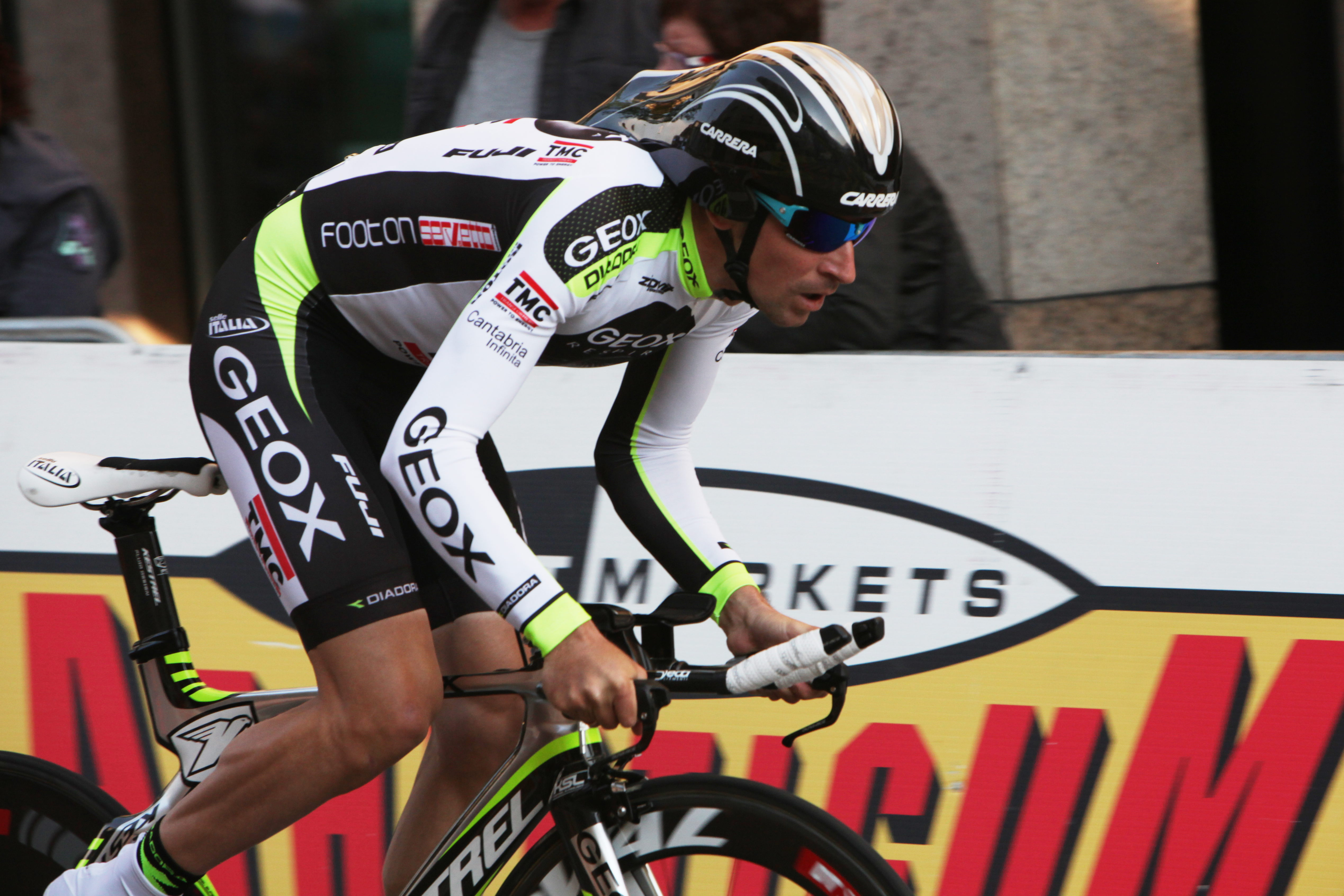 Denis Menchov at the prologue of the Tour de Romandie 2011